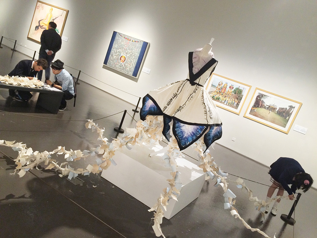 Mandala of Desires (Blue Lotus Wish Tree) is an interactive sculpture dress made by fashion designer Mandali Mendrilla. The dress is creating a beautiful life by visualisation. Visitors are invited to tie a desire on the dress. The dress will be taken to India and offered to a genuine Wish Tree. This is an image of the dress on display at the China Art Museum in Shanghai.